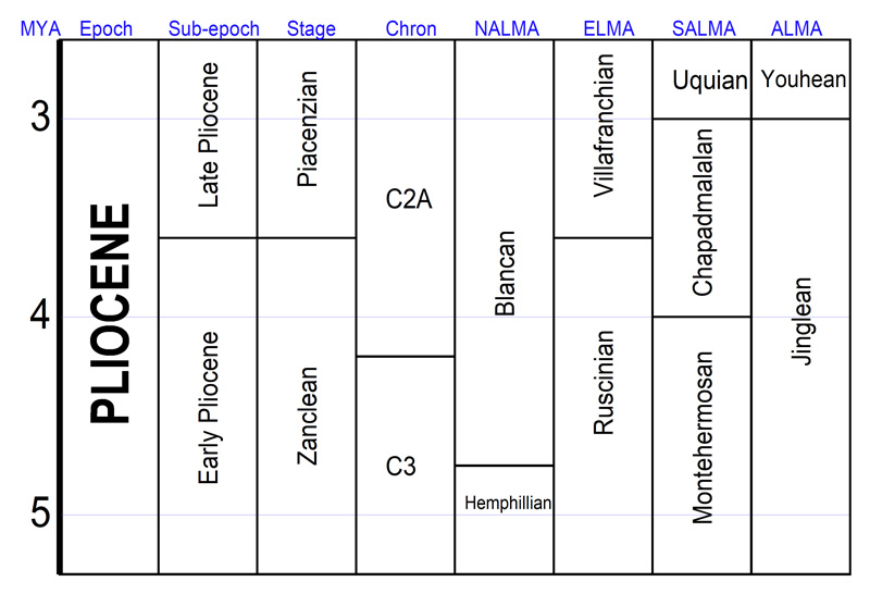 A comparison of various schemes for subdividing the Pliocene epoch.